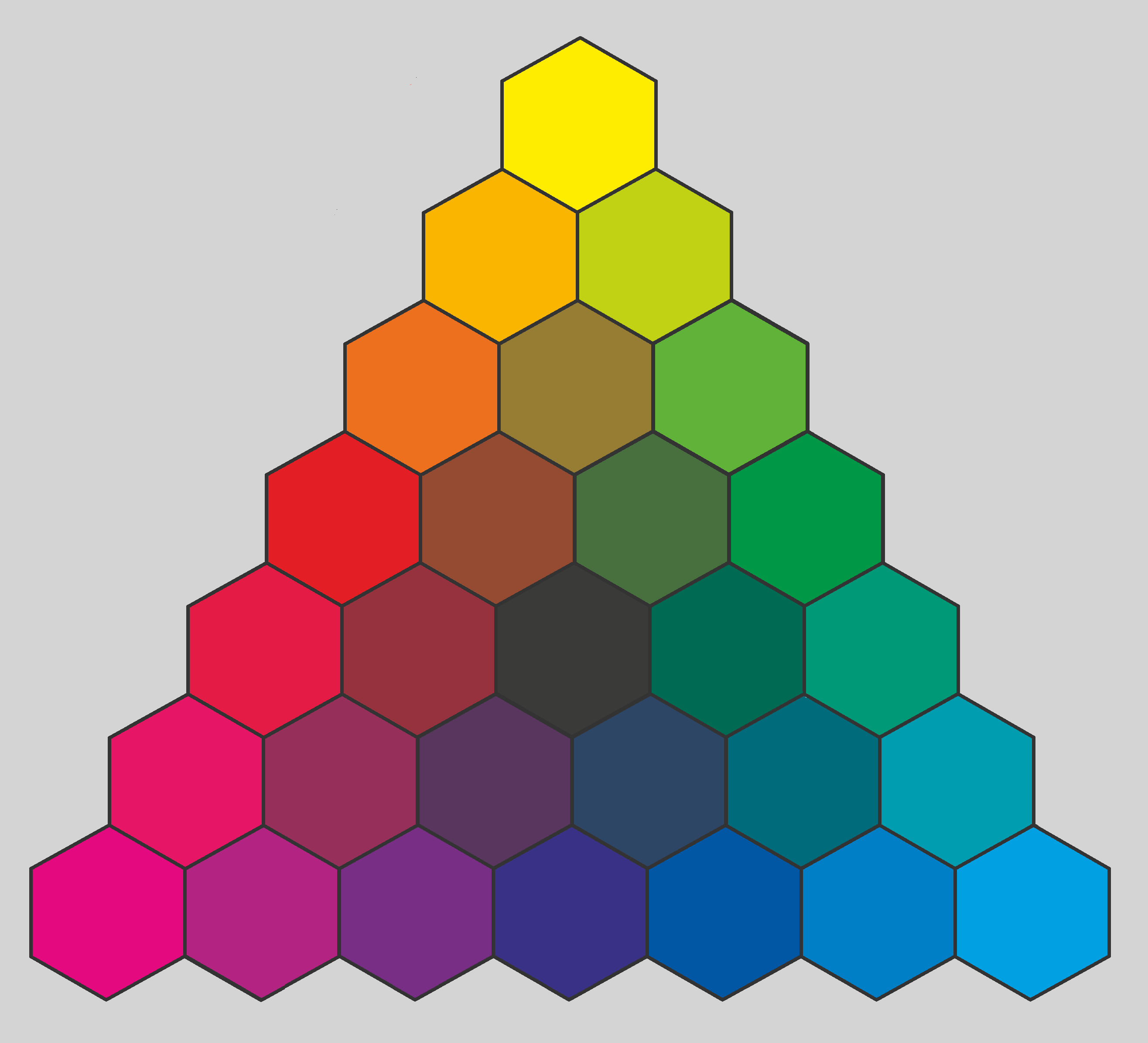 Mayer's color triangle in CMY.